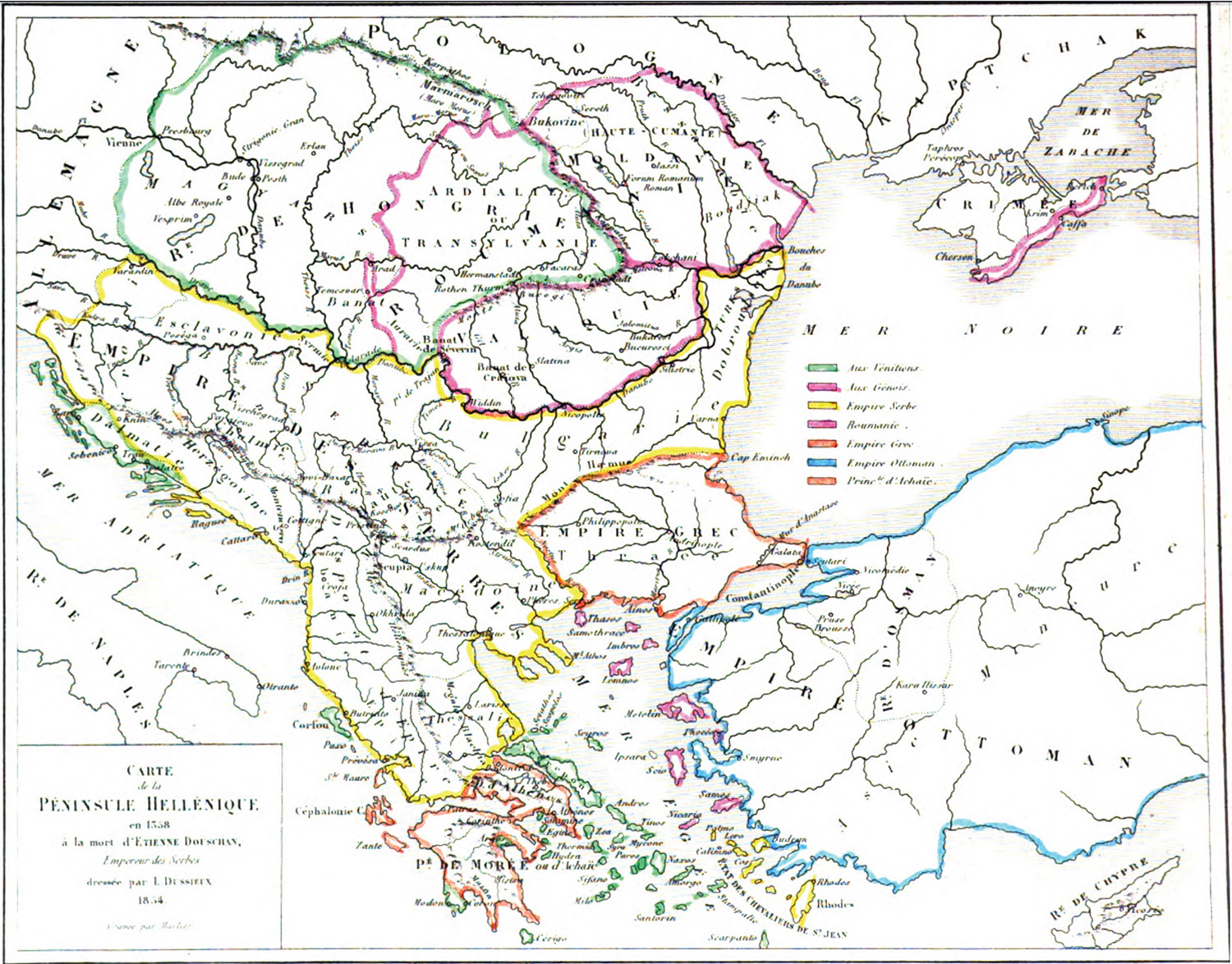 Serbian Empire in 1358 according to Louis Etienne Dussieux.